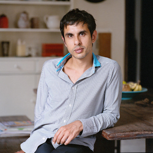 Author Rana Dasgupta at home in Delhi, April 2010 (photo: Nina Subin)